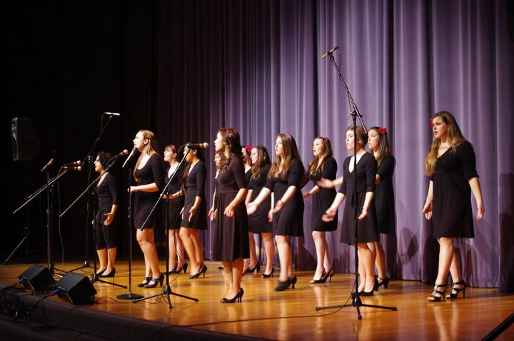 photo by Chen Chen